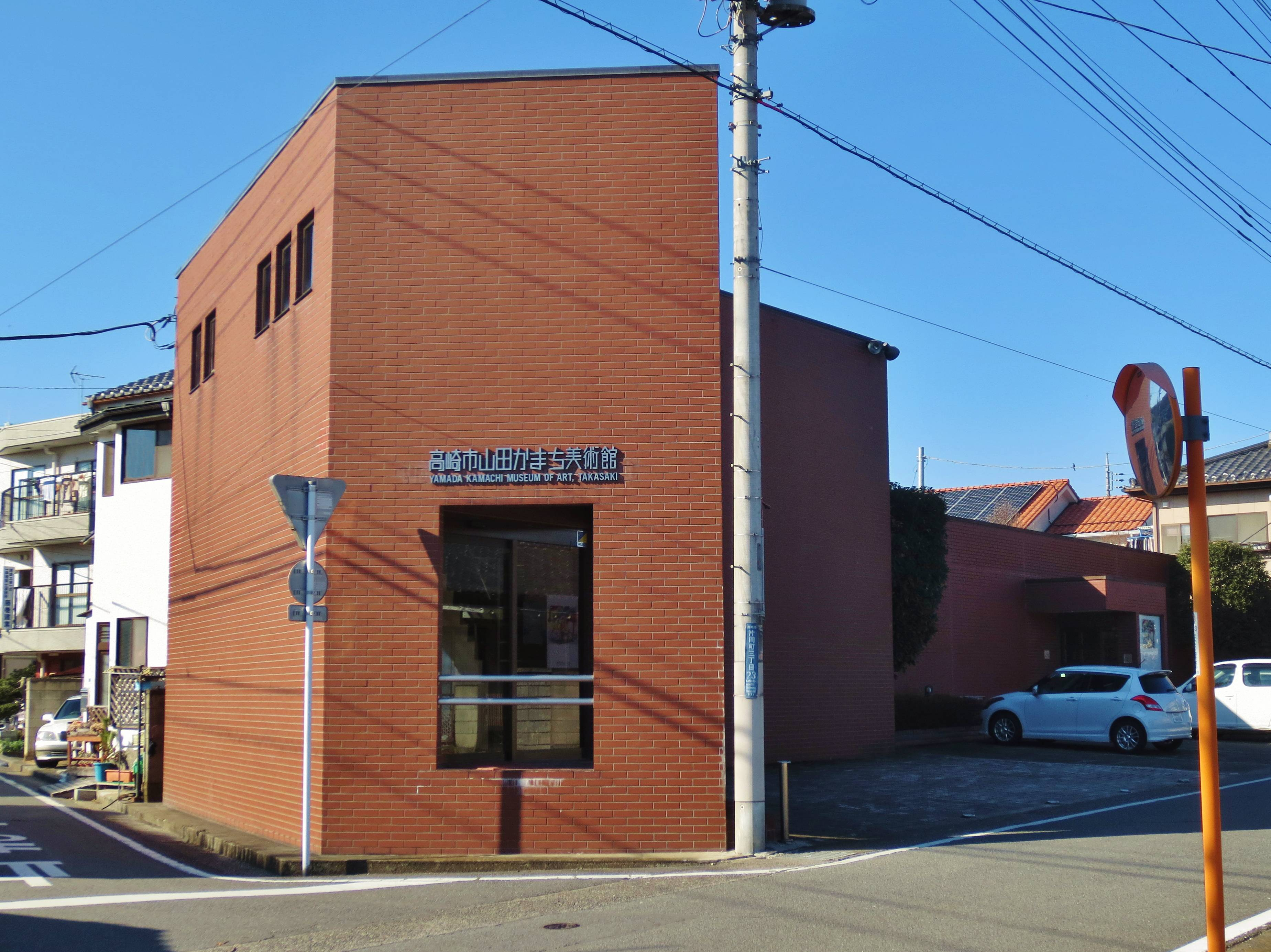 Yamada Kamachi Museum of Art.